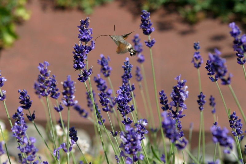 Lavender and Macroglossum stellatarum (Sphingidae, family of moths)